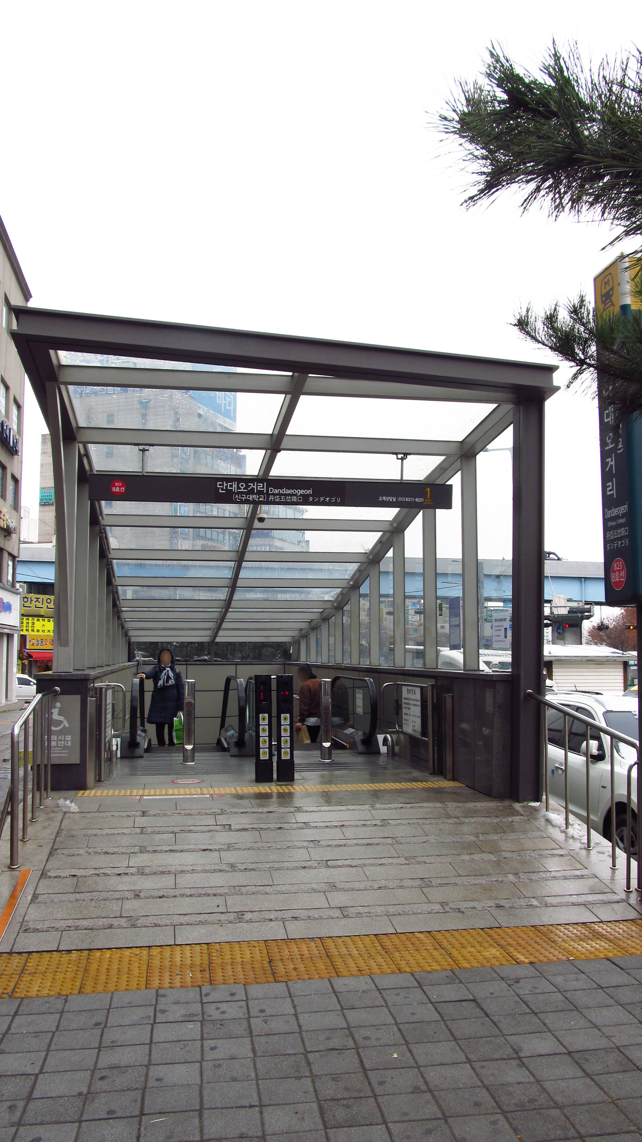 The no.1 entrance to Dandaeogeori Station on Seoul Subway Line 8 in Seongnam city, Gyeonggi-do(province), Republic of Korea(South Korea)